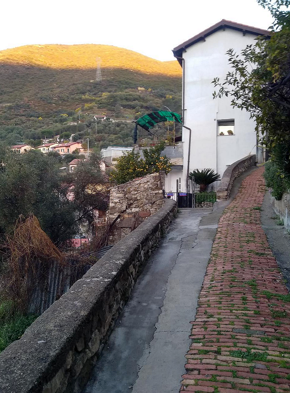 Bevera (Ventimiglia, Italy): salita del Fico, on the background the Monte Pozzo